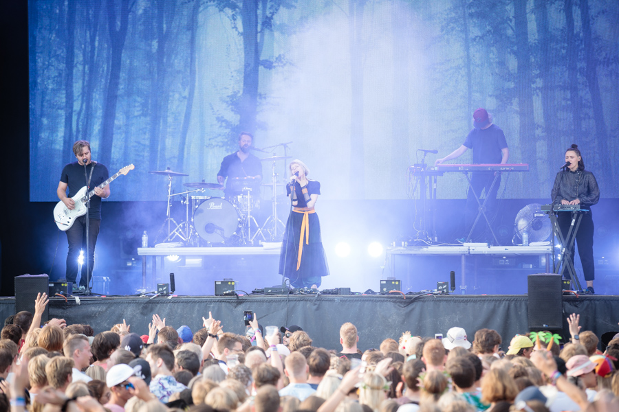 Aurora at Stavernfestivalen. The concert took place on 12. July 2018 in Stavern. Lineup:Aurora (vocal)Silja Dyngeland (keyboard)Unidentified (bass guitar)Magnus Skylstad (drums)Unidentified (keyboard)